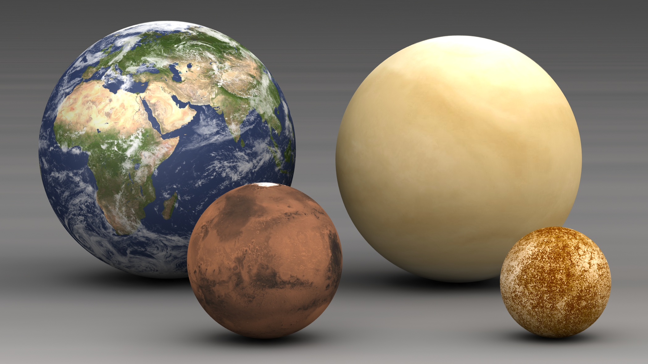 Telluric planets size comparison